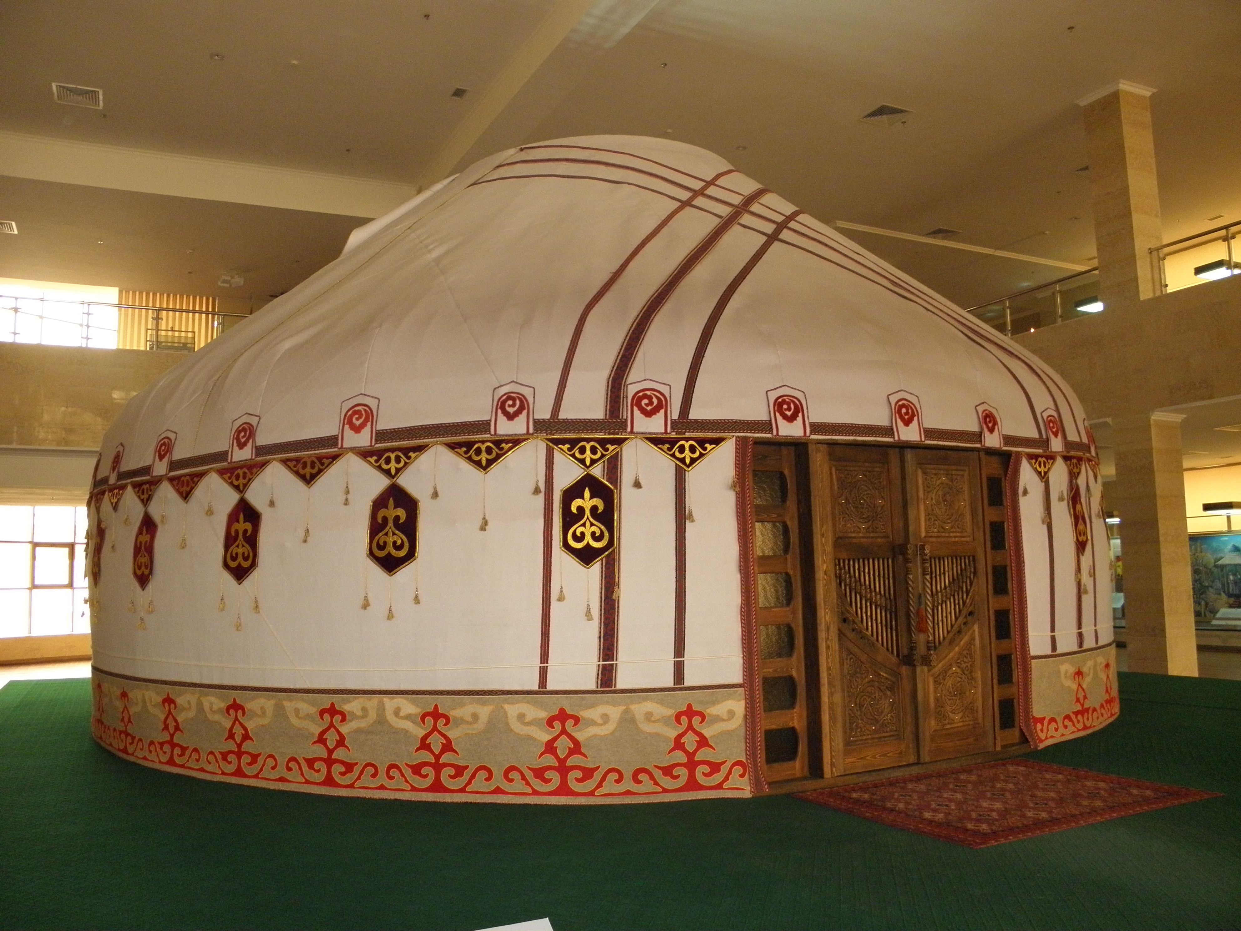 Киіз Үй